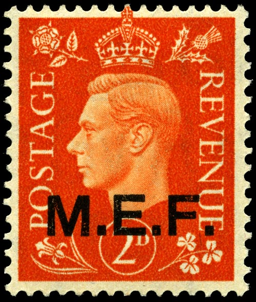 United Kingdom Middle Eastern Forces 2p stamp of 1942